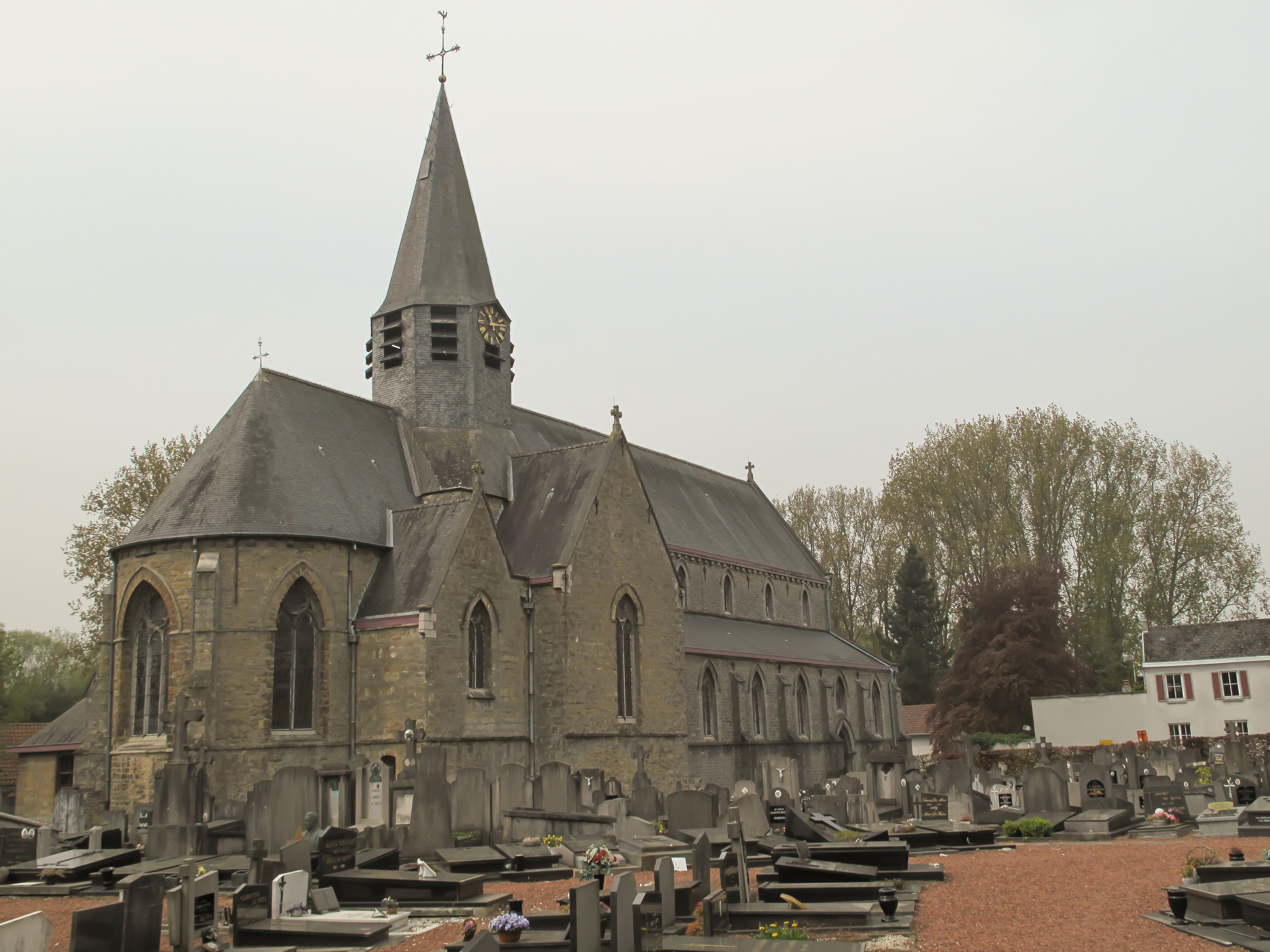 Scheldewindeke, church: de Sint Christoffelkerk